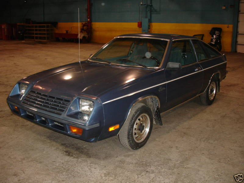 1979 Plymouth Horizon TC3 (appologies for being taken at night)